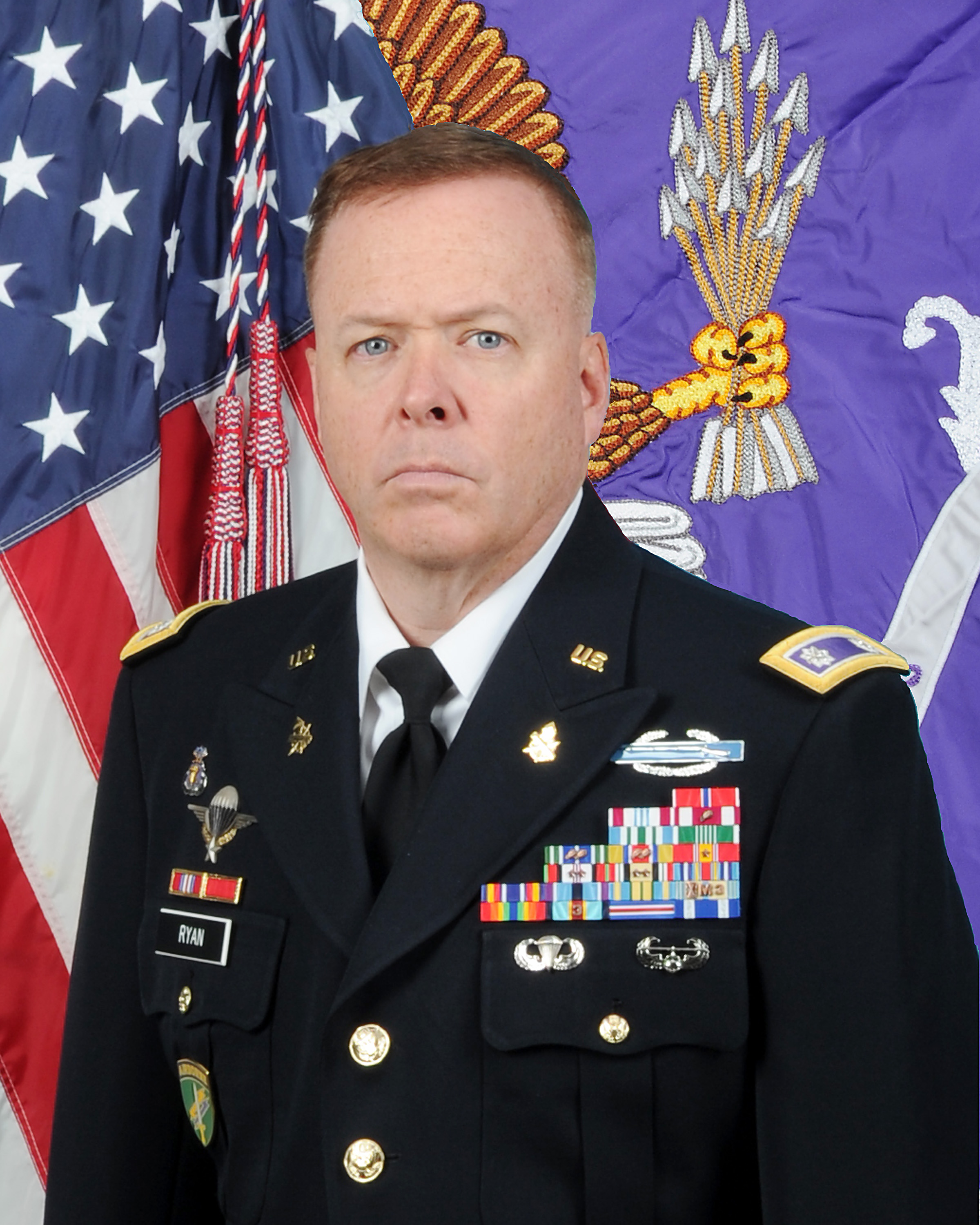 Photo S Ryan